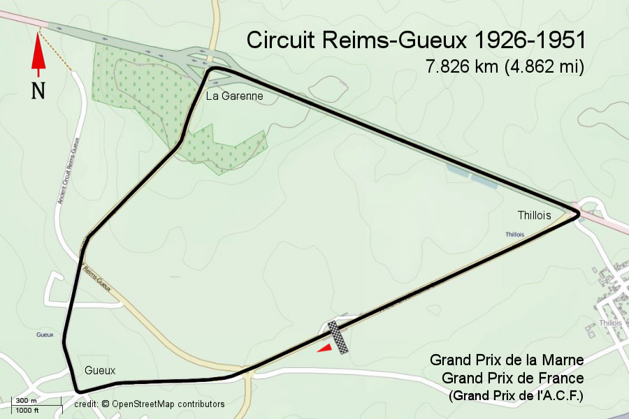 Circuit Reims-Gueux 1926 (OpenStreetMap)